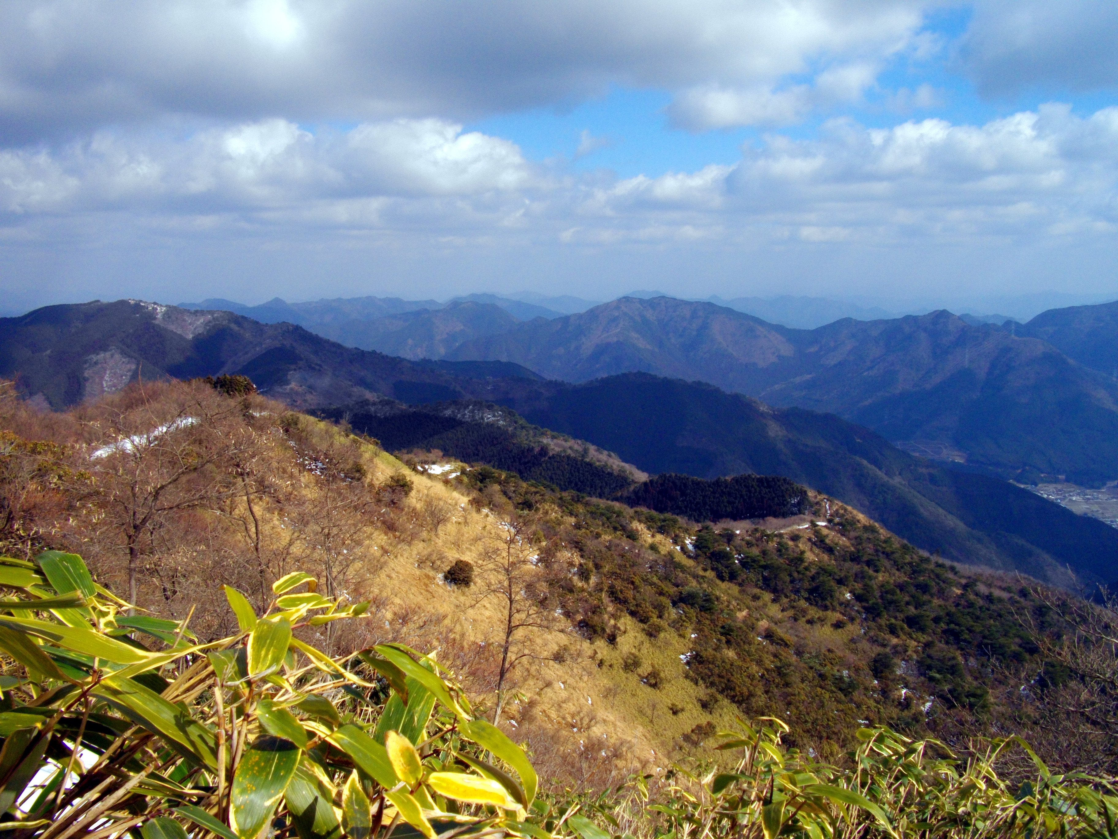 Mount Ryu from Mount Sen, Hyogo, Japan.